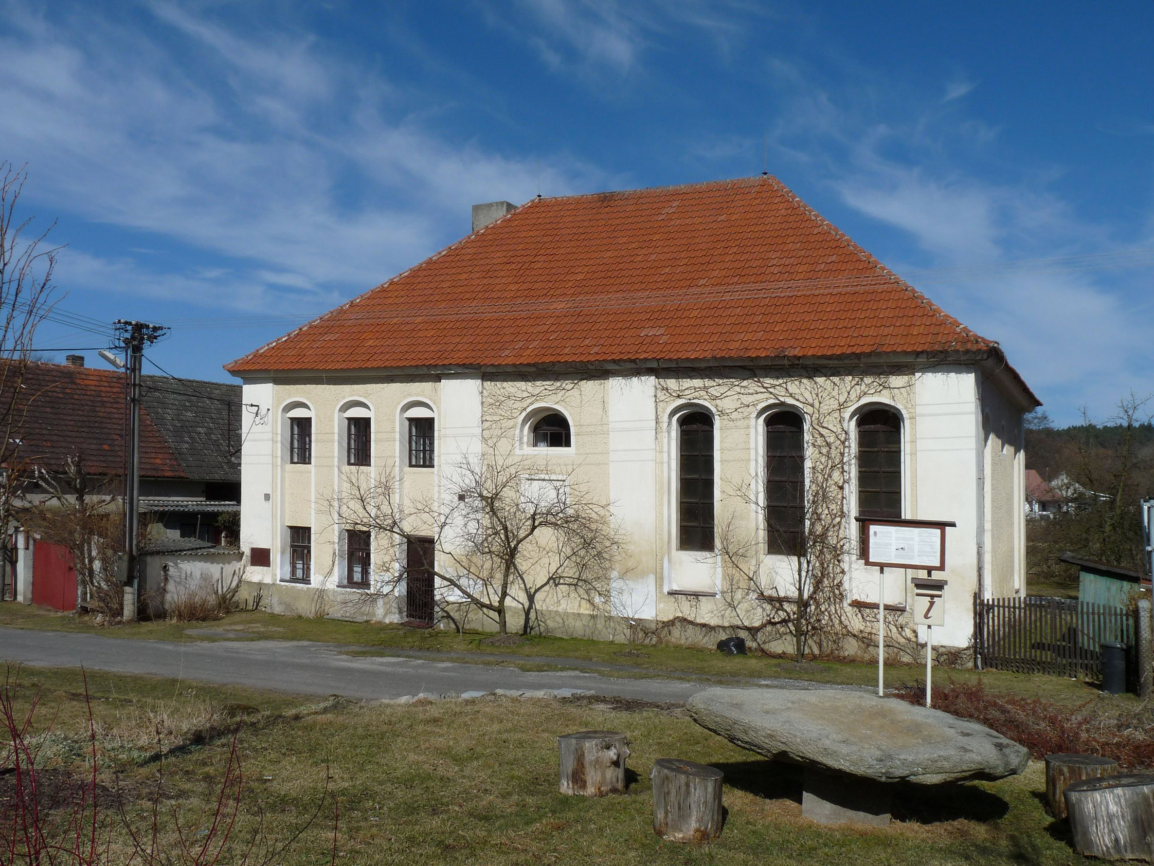 Former synagogue in the municipality of Slatina, Klatovy District, Czech Republic